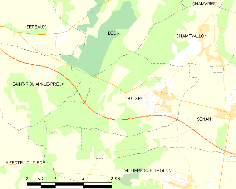 Map of French municipality Volgré